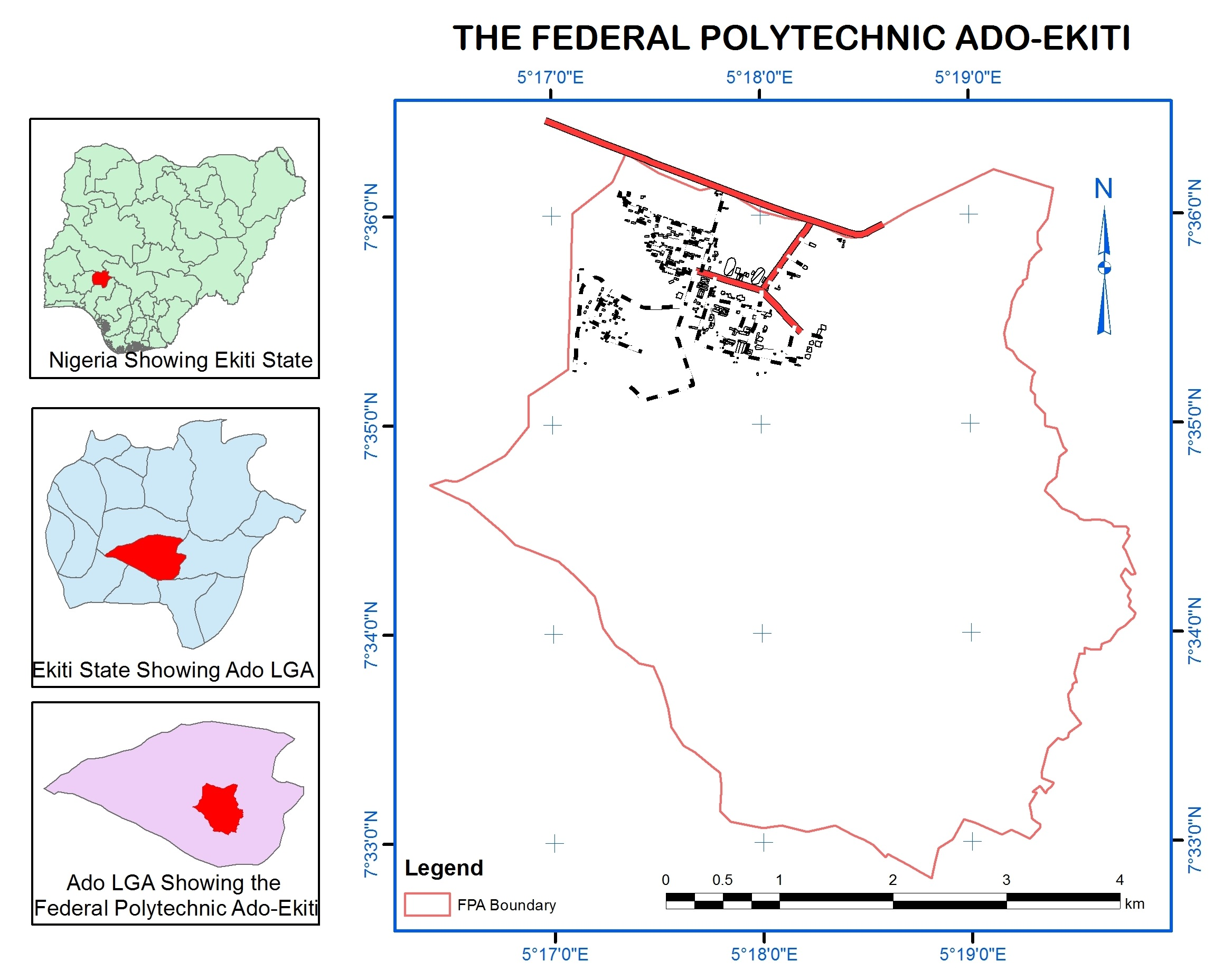 This map shows Nigeria showing Ekiti State, Ekiti state showing Ado-Ekiti, Ado-Ekiti showing The Federal Polytechnic Ado-Ekiti and The Federal Polytechnic Ado-Ekiti.